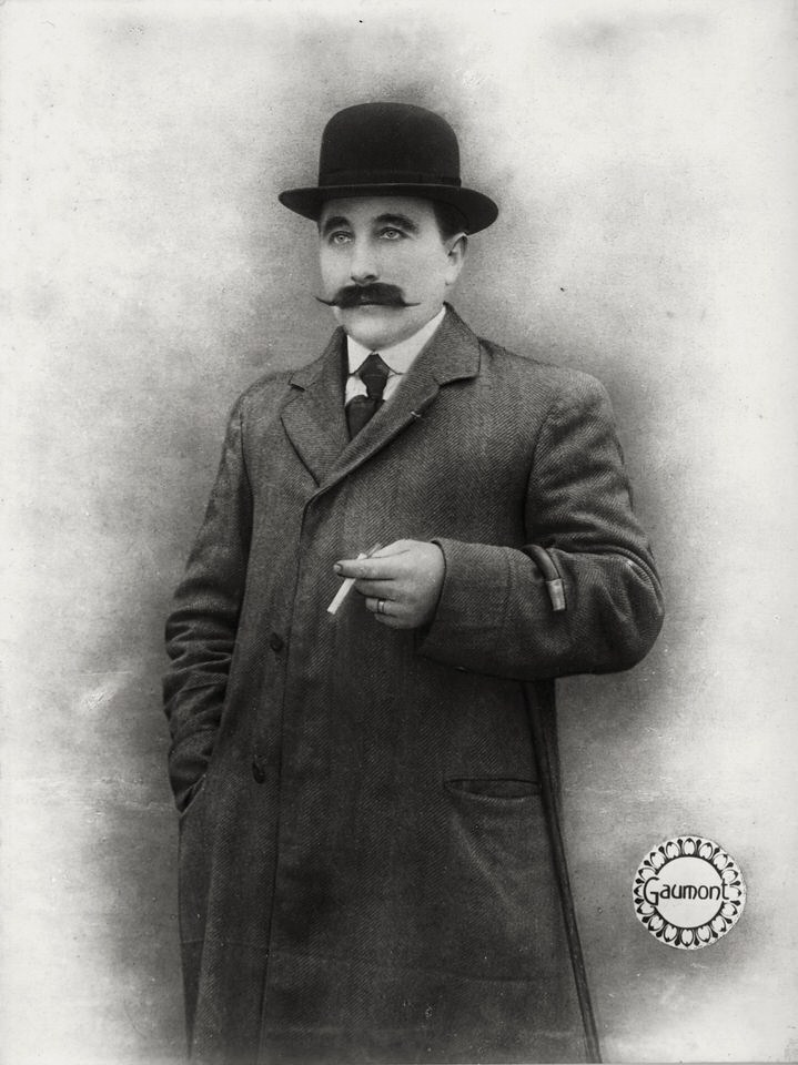 Edmund Breon (aka Edmond Bréon or Edmond Breon) as Inspecteur Juve in the Louis Feuillade's Fantômas silent serials - publicity still